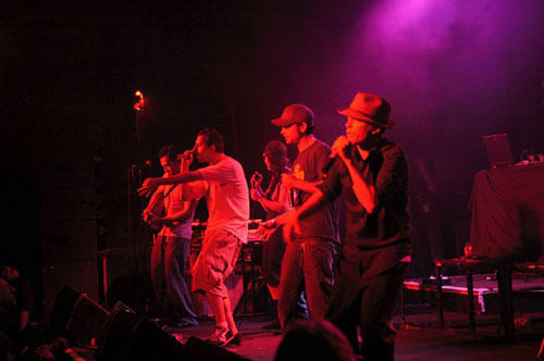 Australian hip-hop band The Herd perform on stage at the Metro Theatre, Sydney.